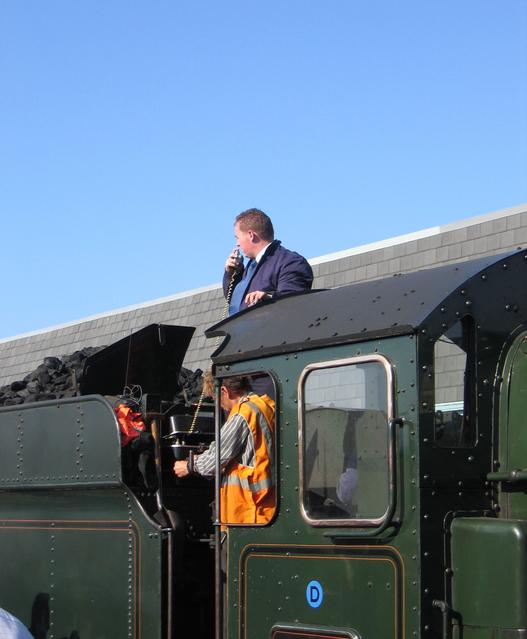 Portable Radio Electronic Token Block equipment under test on former Great Western locomotive "Bradley Manor" for use on the Cambrian Line, Wales